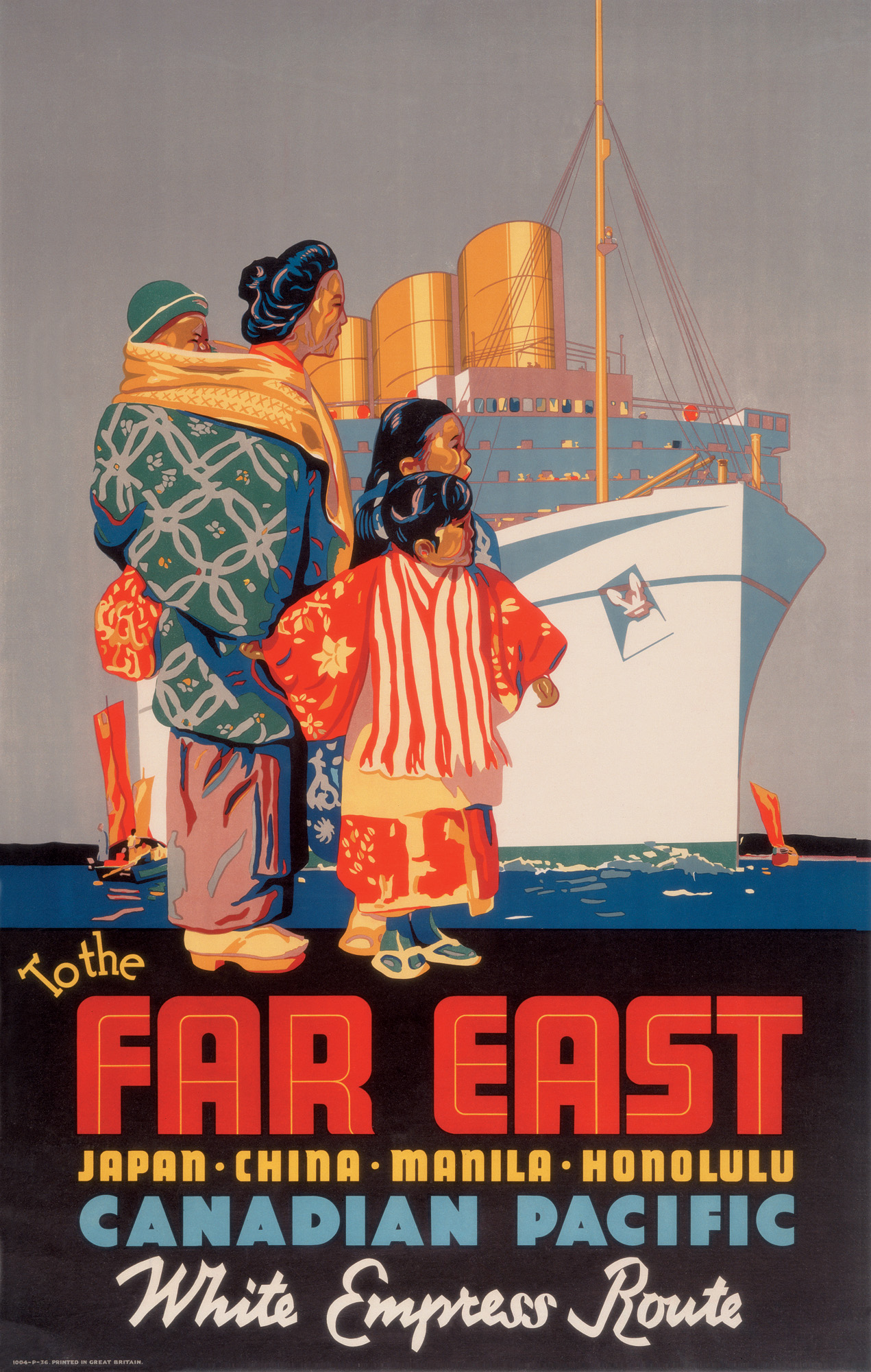 No known copyright restrictions. Please credit UBC Library as the image source. For more information, see Creator: Unknown Date Created: 1936 Source: University of British Columbia. Library. Rare Books and Special Collections Permanent URL